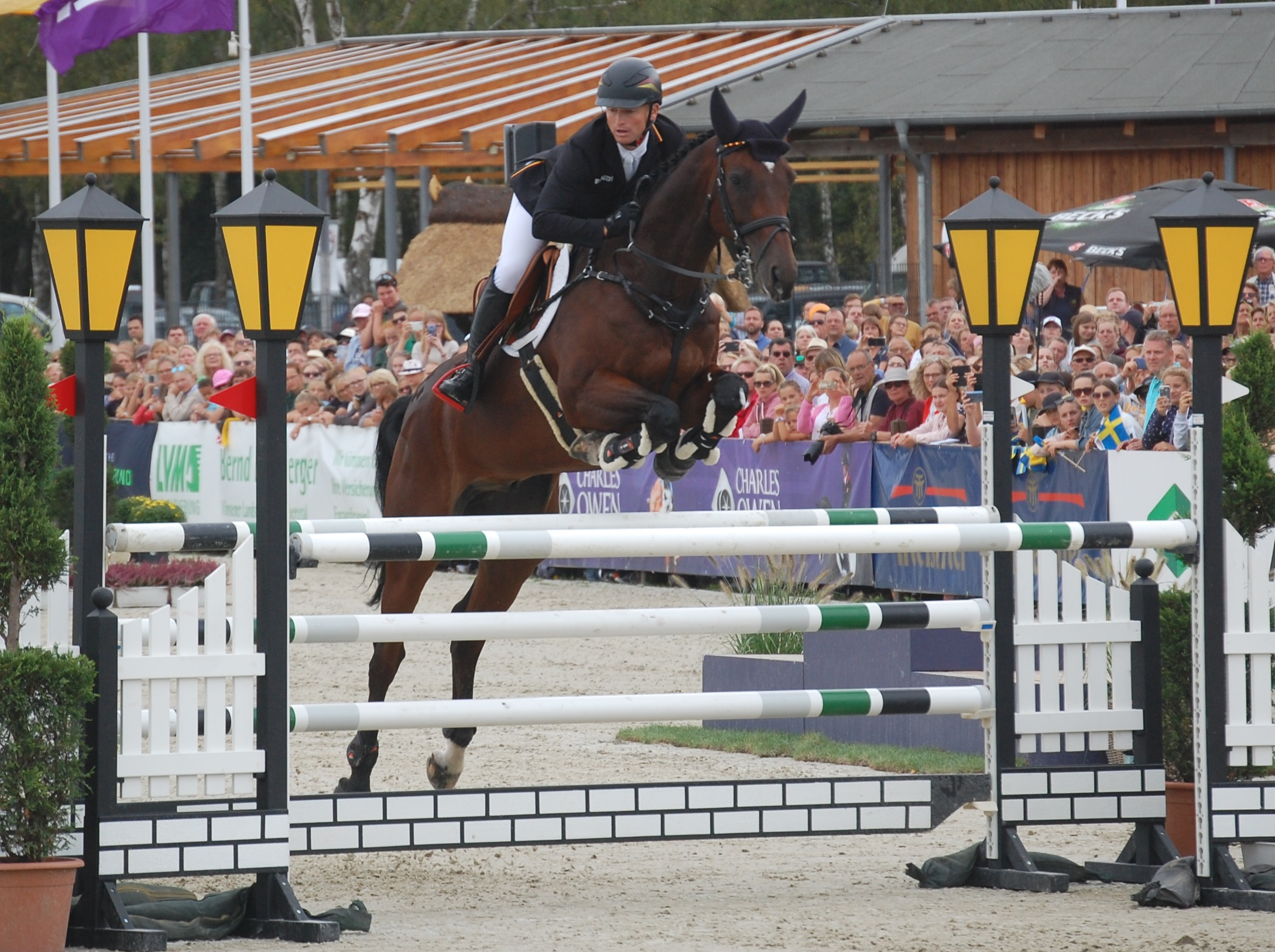 German rider Michael Jung and Chipmunk FRH, show jumping phase at 2019 European Eventing Championship, Luhmühlen